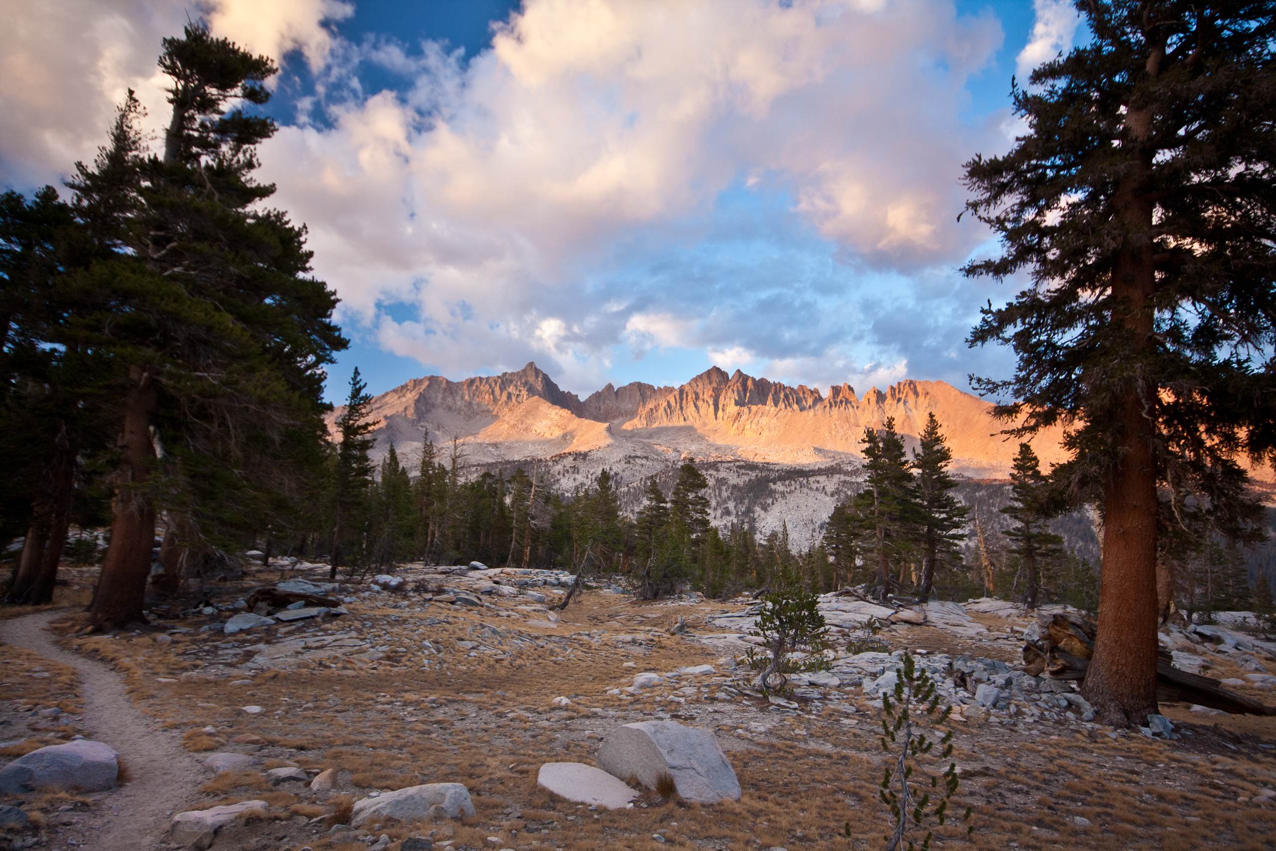 On route to Little Five Lakes, Sequoia National Park, California